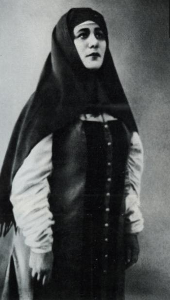 Yevgeniya Zbruyeva as Marfa in Khovanshchina, 1911